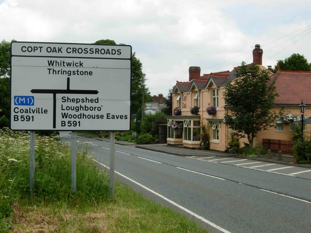 Copt Oak. Copt Oak, consisting of little more than a crossroads, a church and the Copt Oak pub, is in the heart of Charnwood Forest.